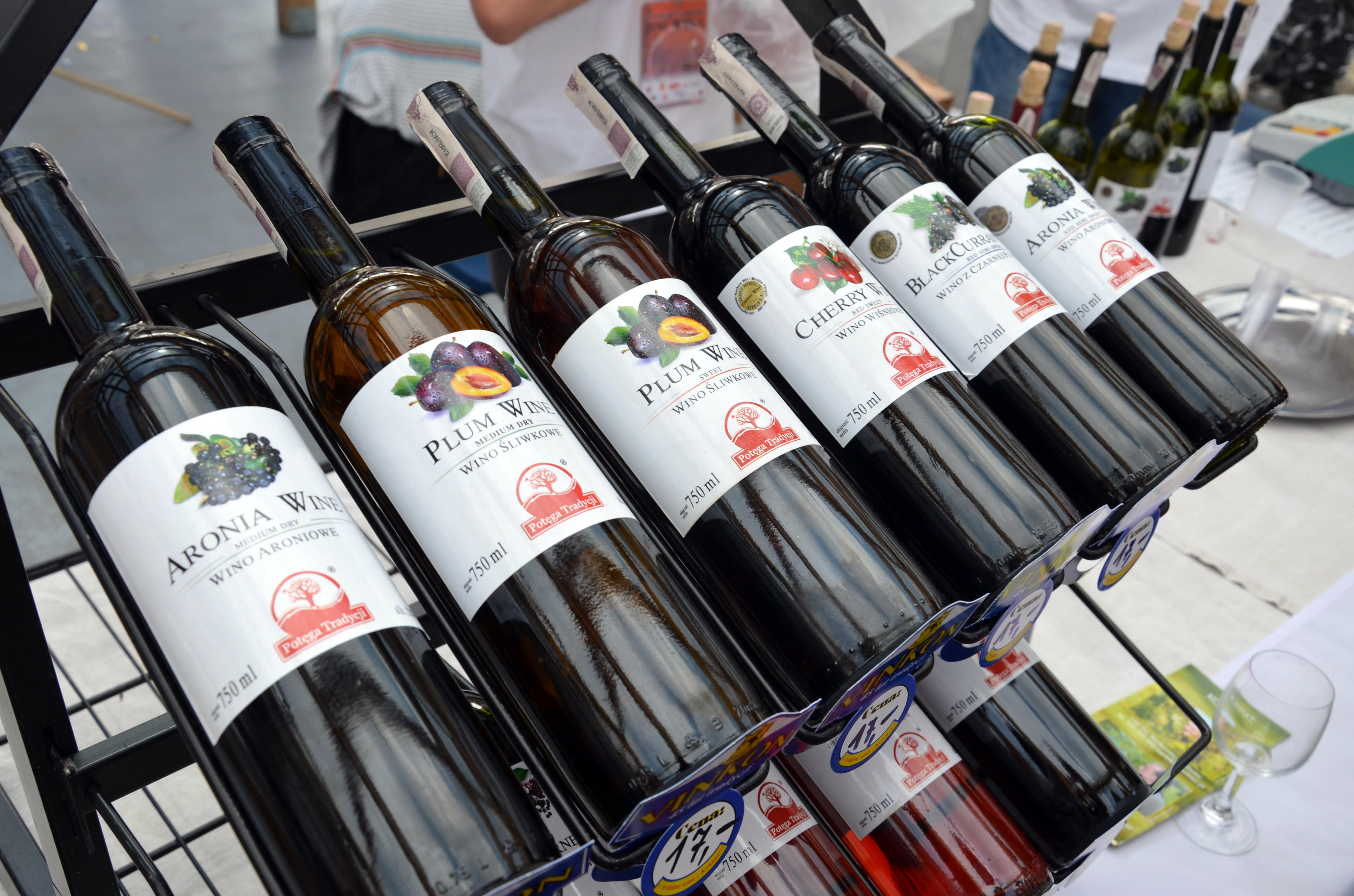 Fruit wines